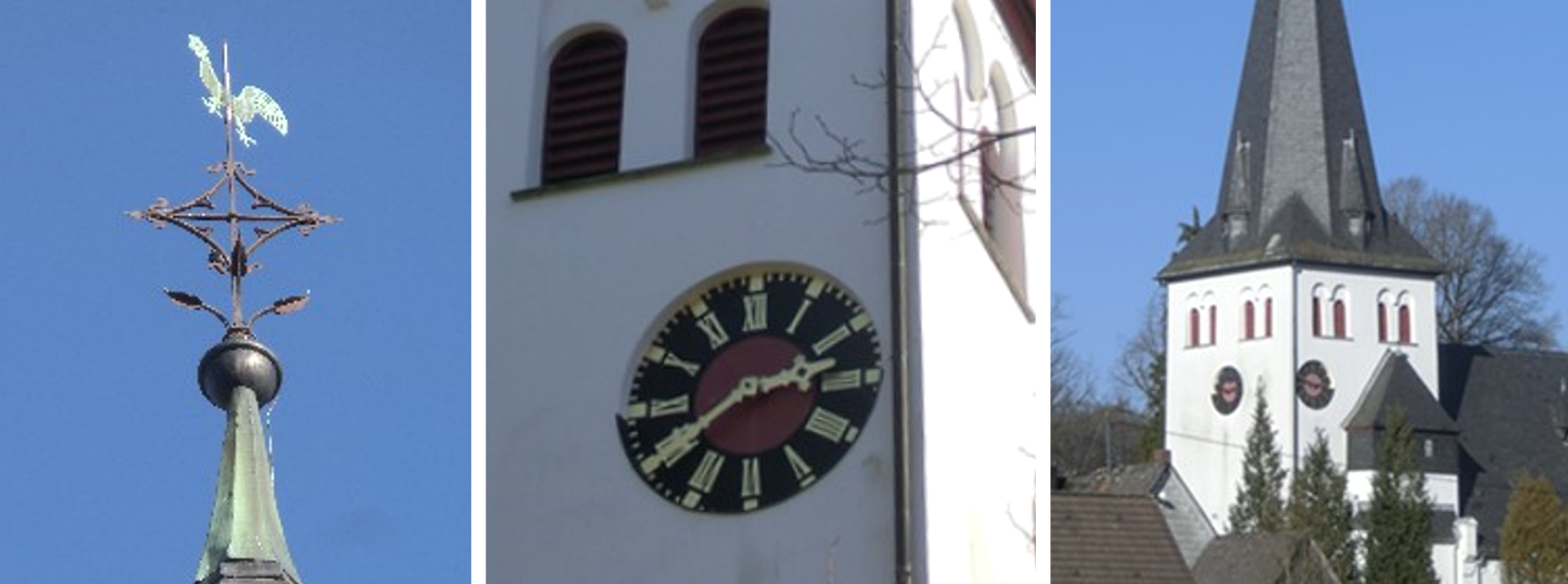 Church Oberholzklau